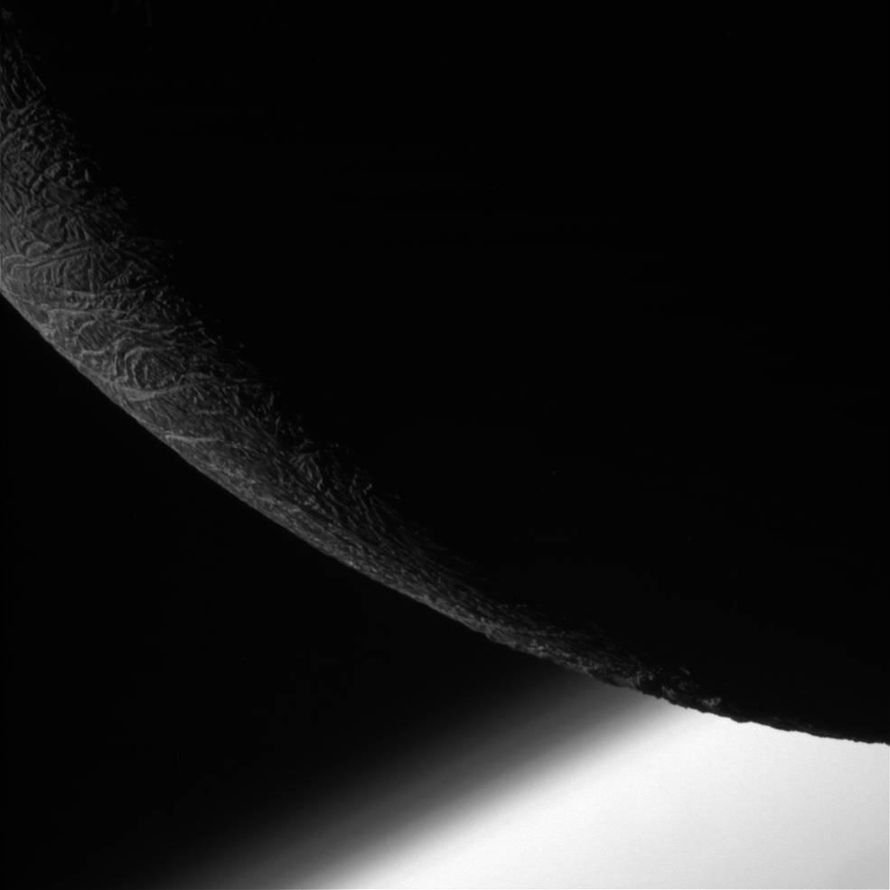 NASA's Cassini spacecraft paused during its final close flyby of Enceladus to focus on the icy moon's craggy, dimly lit limb, with the planet Saturn beyond. Layers can be seen in the high hazes of Saturn's upper atmosphere, in the gradient that separates the planet from space. North on Enceladus is up and rotated 27 degrees to the left. The image was taken with the Cassini spacecraft narrow-angle camera on Dec. 19, 2015, using a spectral filter, which preferentially admits wavelengths of near-infrared light. The view was acquired at a distance of approximately 15,000 miles (24,000 kilometers) from Enceladus and at a Sun-Enceladus-spacecraft, or phase, angle of 147 degrees. Image scale is 479 feet (146 meters) per pixel. The Cassini mission is a cooperative project of NASA, ESA (the European Space Agency) and the Italian Space Agency. The Jet Propulsion Laboratory, a division of the California Institute of Technology in Pasadena, manages the mission for NASA's Science Mission Directorate, Washington. The Cassini orbiter and its two onboard cameras were designed, developed and assembled at JPL. The imaging operations center is based at the Space Science Institute in Boulder, Colorado. For more information about the Cassini-Huygens mission visit and The Cassini imaging team homepage is at